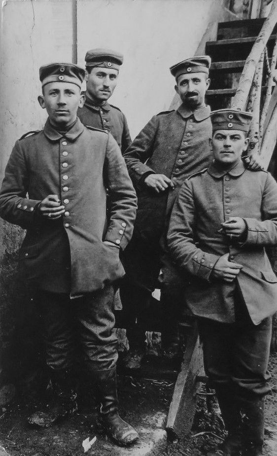 Soldiers of 3. Schlesisches Infanterie-Regiment Nr. 156.